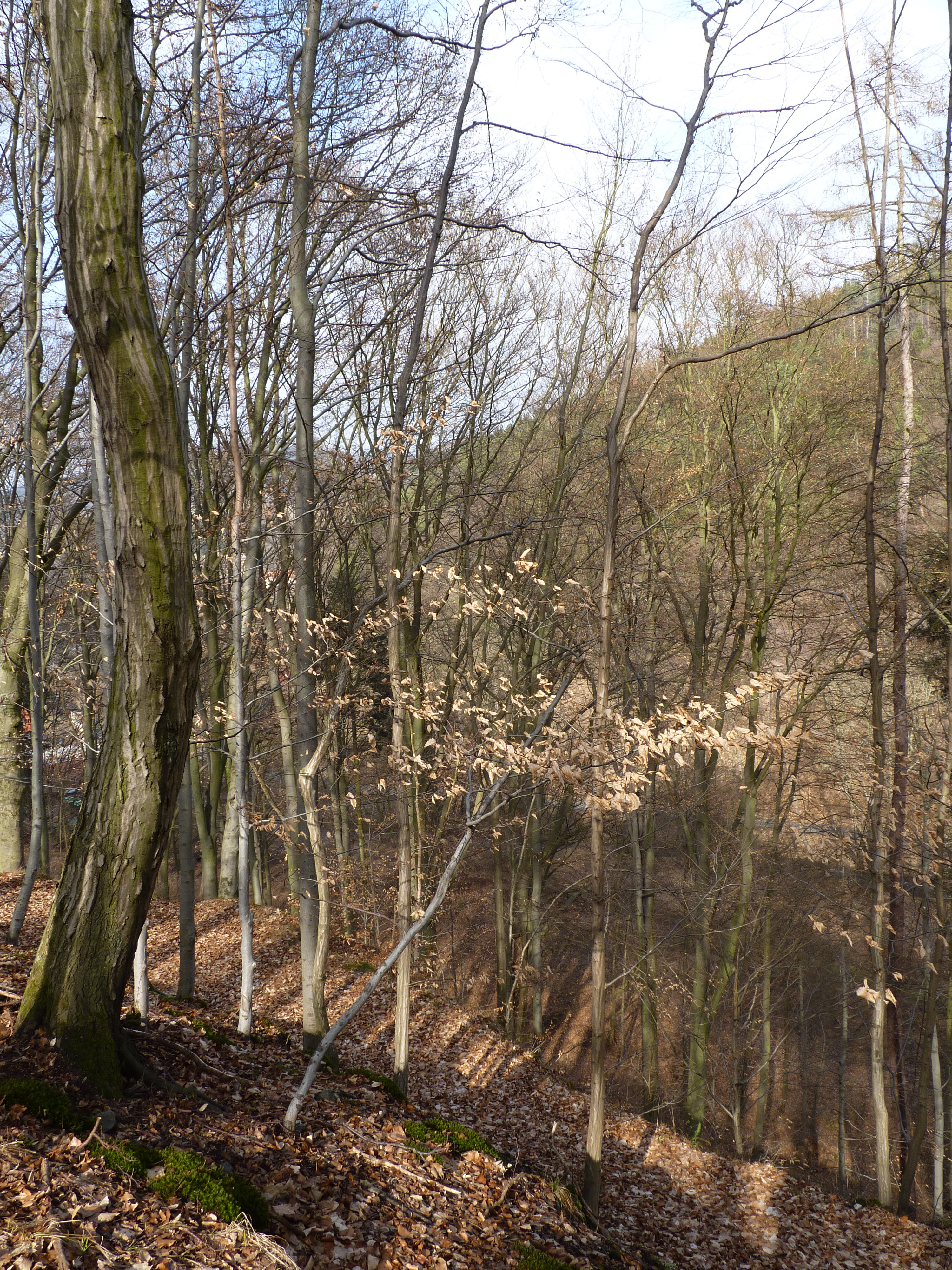 Zámecký les v Lomnici, natural monument in Brno-Country District, South Moravian Region, Czech Republic Project: Chráněná území